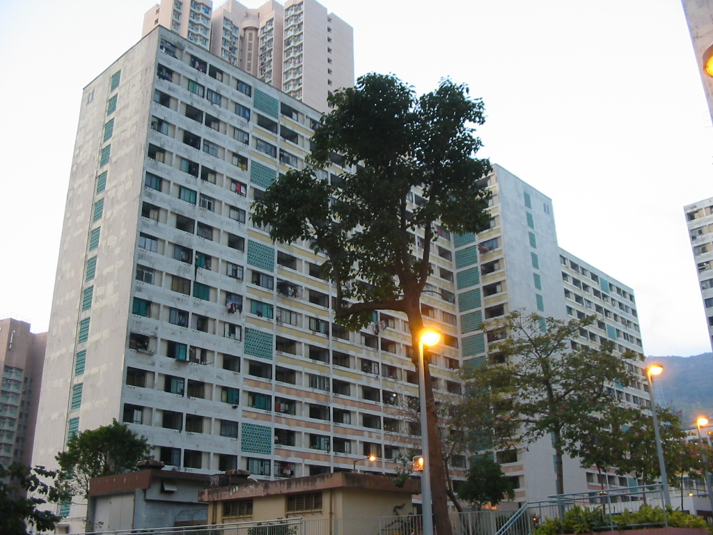 Block 11, Shek Lei Estate.